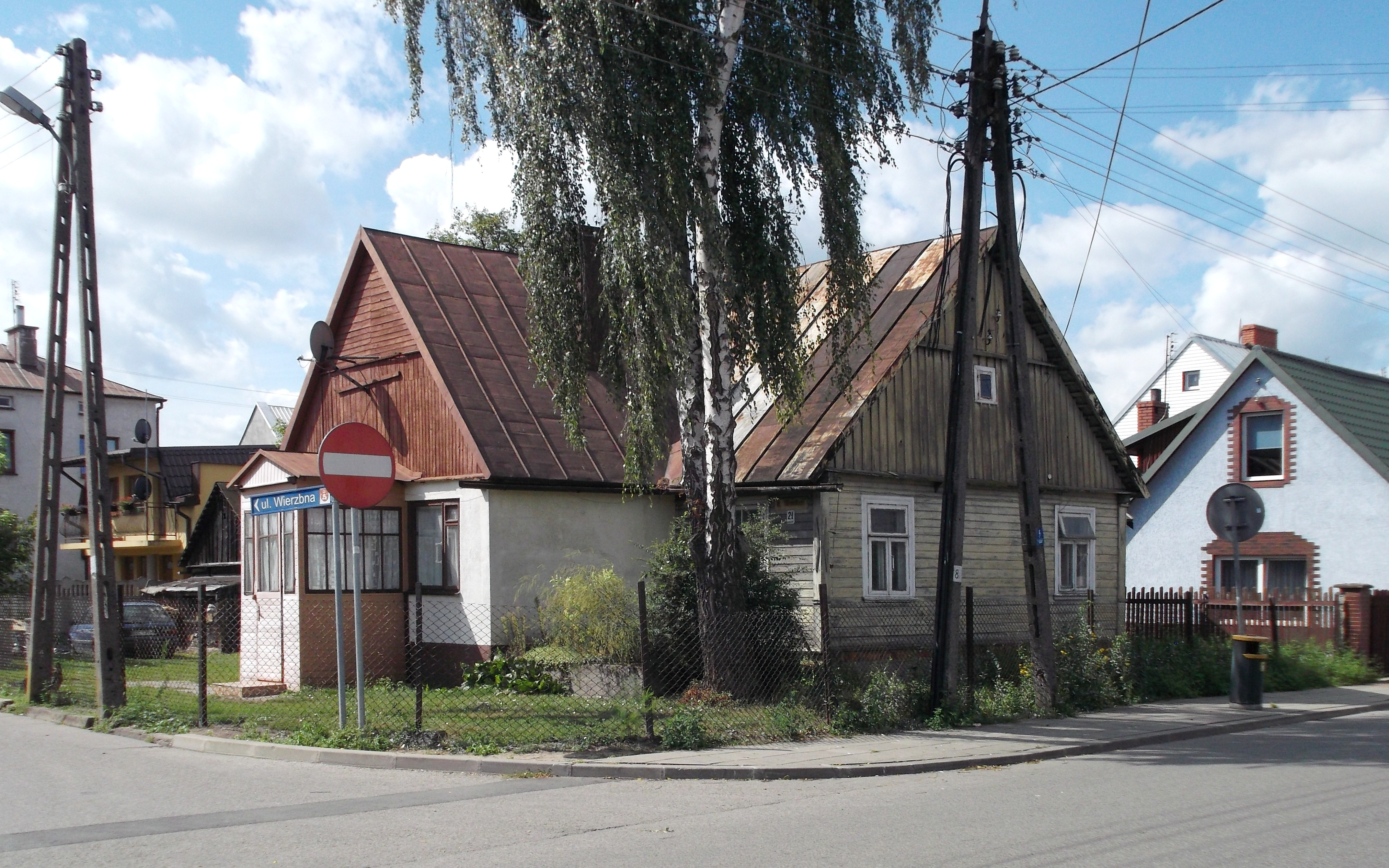 Wooden house, Nadrzeczna Str. in Augustów, Poland.